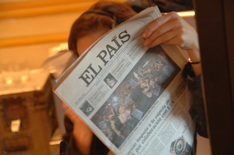 EPP CONVENTION ON CLIMATE CHANGE IN MADRID (6-7 FEBRUARY 2008)